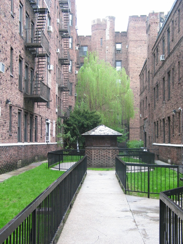 Inside one of the residential building clusters in Midwood. Many people of different cultural and ethnic backgrounds reside in such places. Some neighborhoods are predominantly Russian, Jewish, Pakistanian, etc.